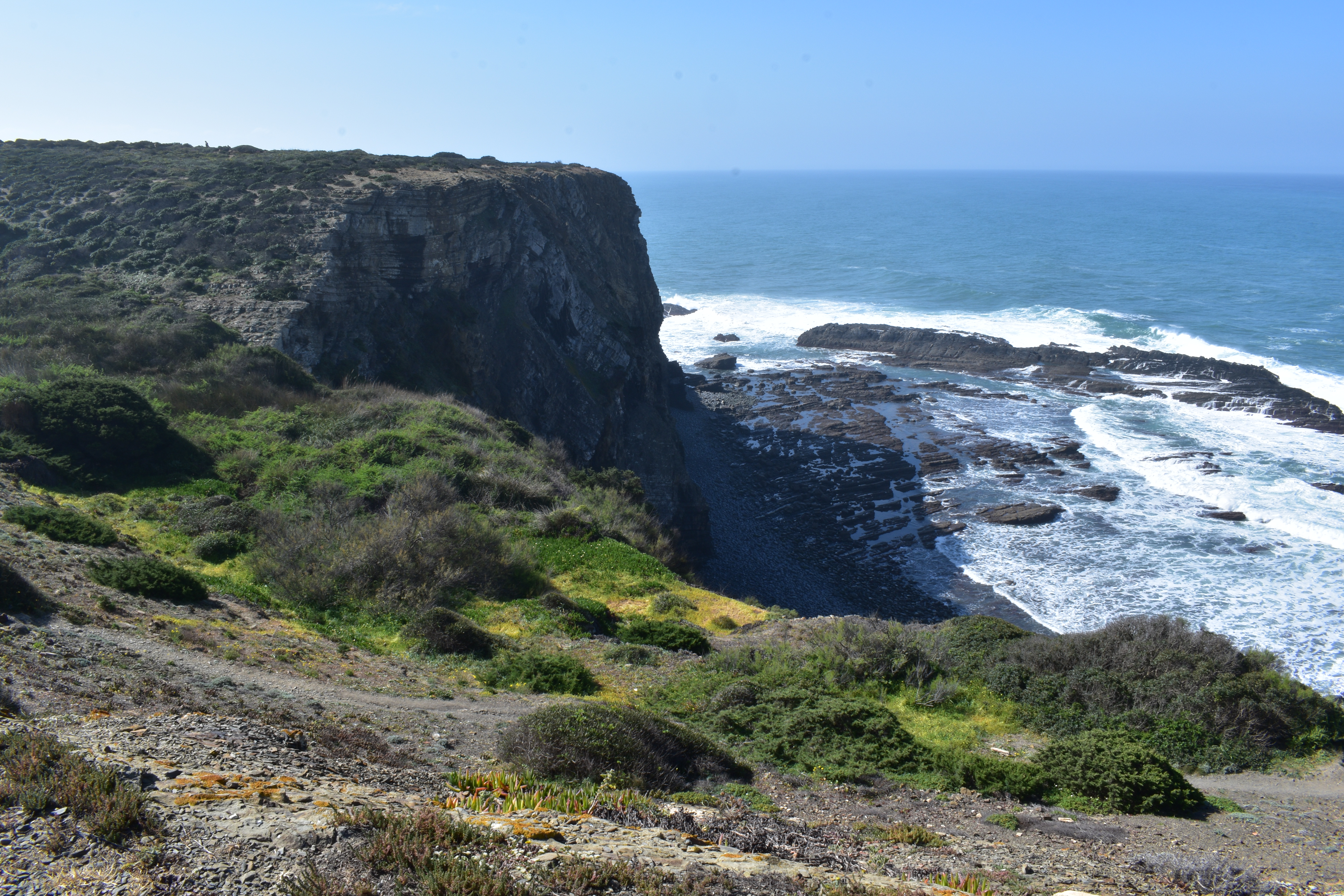 Cliffs at the southwestern side of the Atalaia peninsula, where the ruins of the Ribat of Arrifana are located, in Algarve, Portugal.